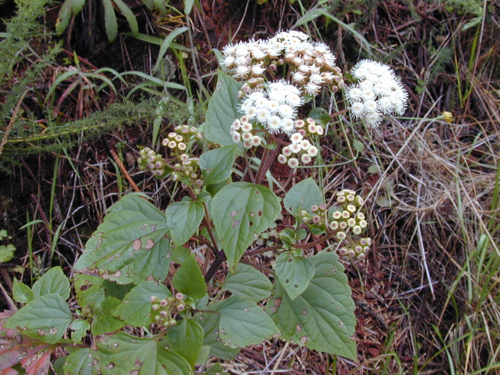 Ageratina adenophora (flowers and leaves). Location: Maui, Makawao Forest Reserve